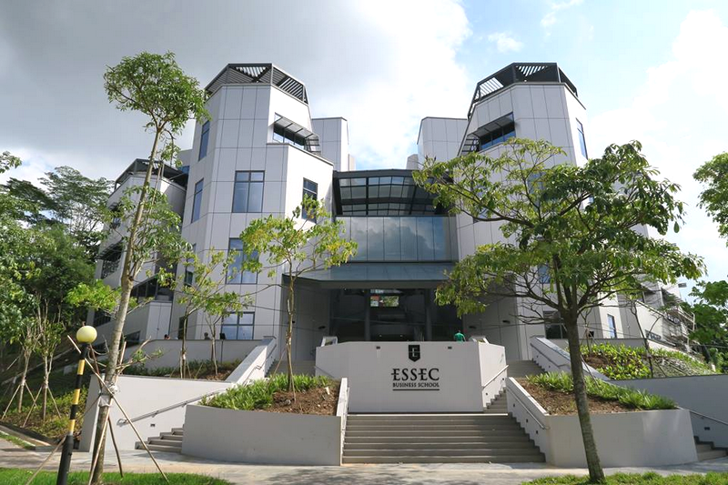 ESSEC campus in Singapore at Nepal Hill